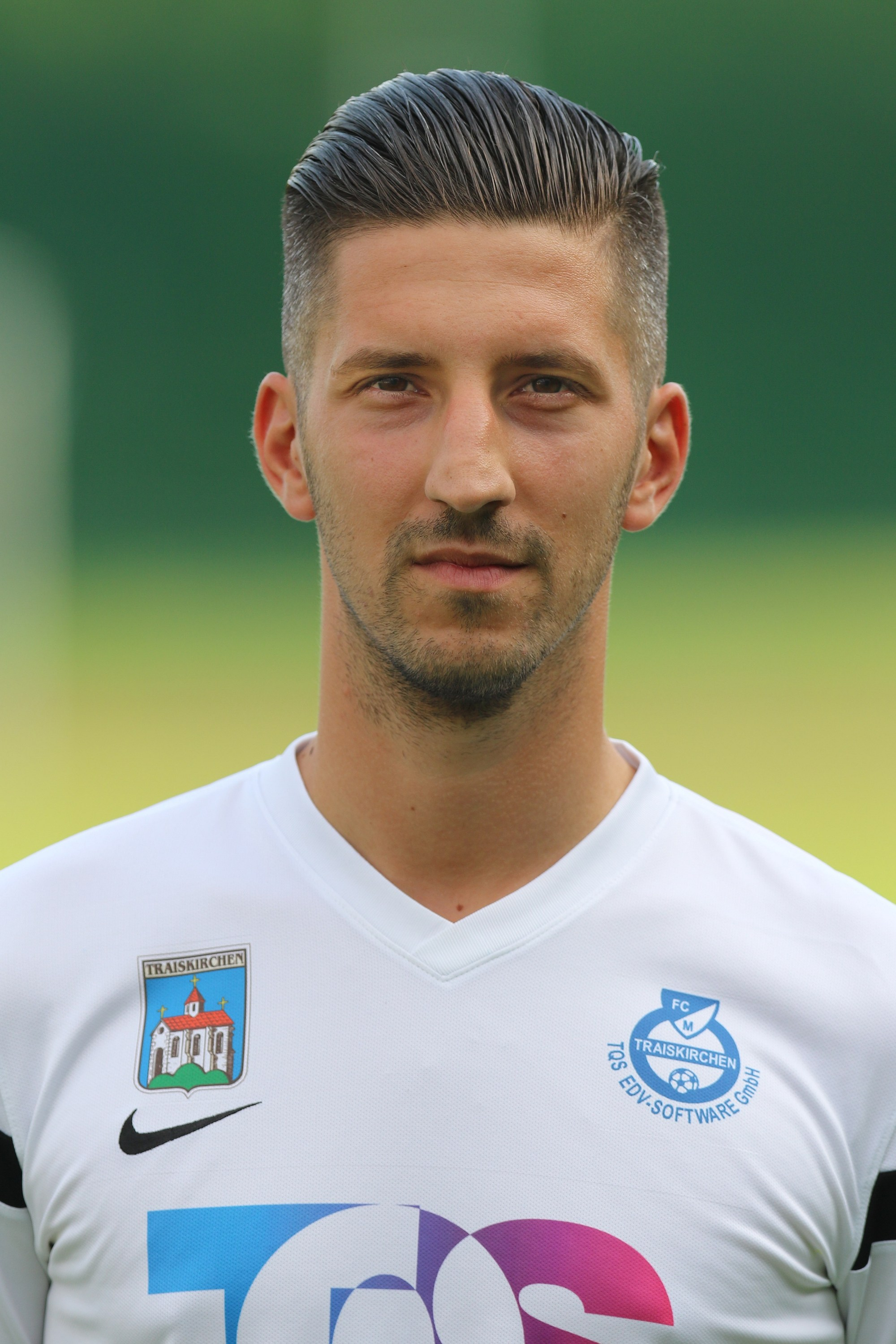 FCM Traiskirchen squad for the 2016-17 season. – The photo shows Michel Sandic.